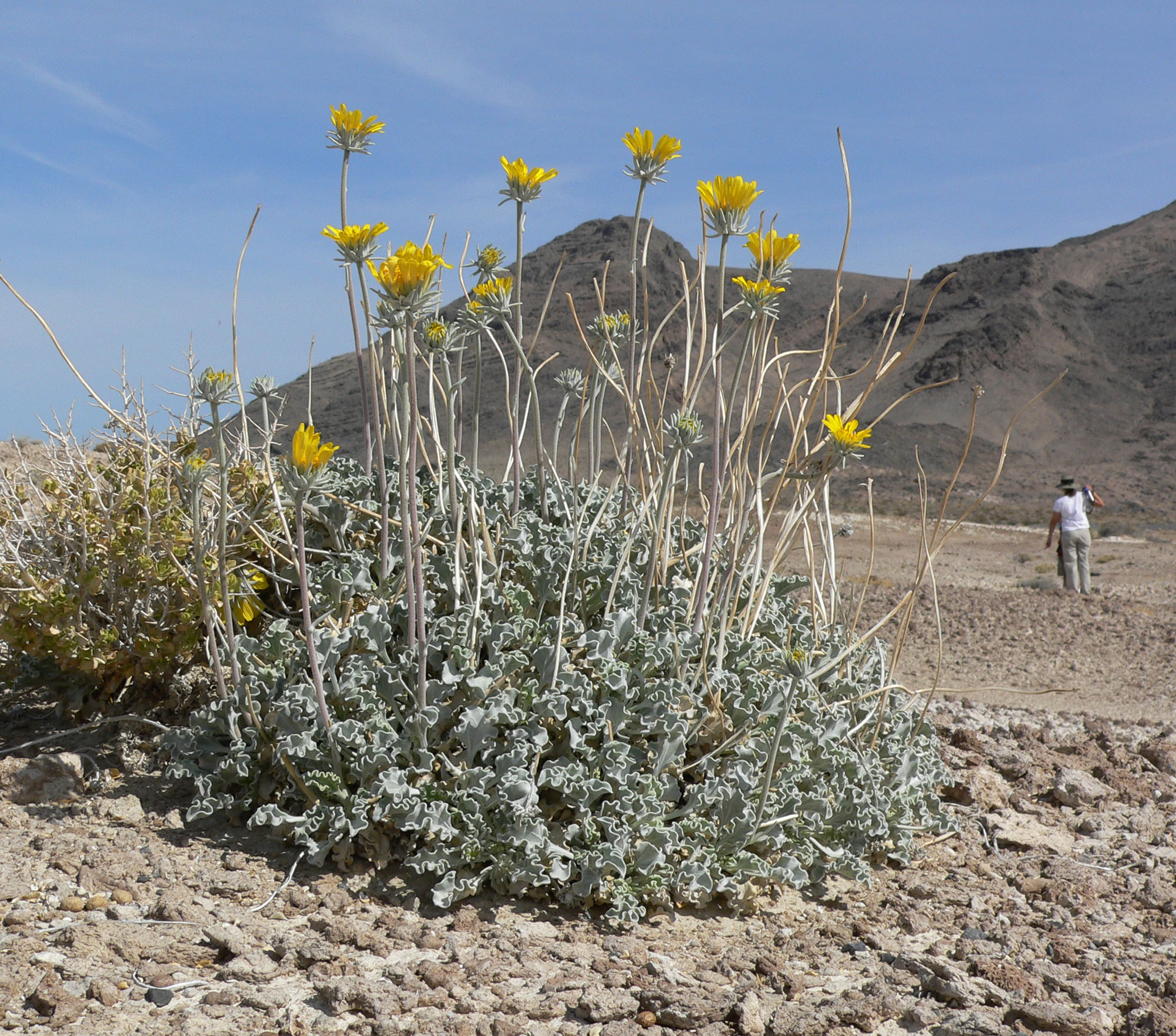 Enceliopsis nudicaulis var. corrugata in gypsum area about 600m SSW of Devils Hole, Ash Meadows, southern Nevada